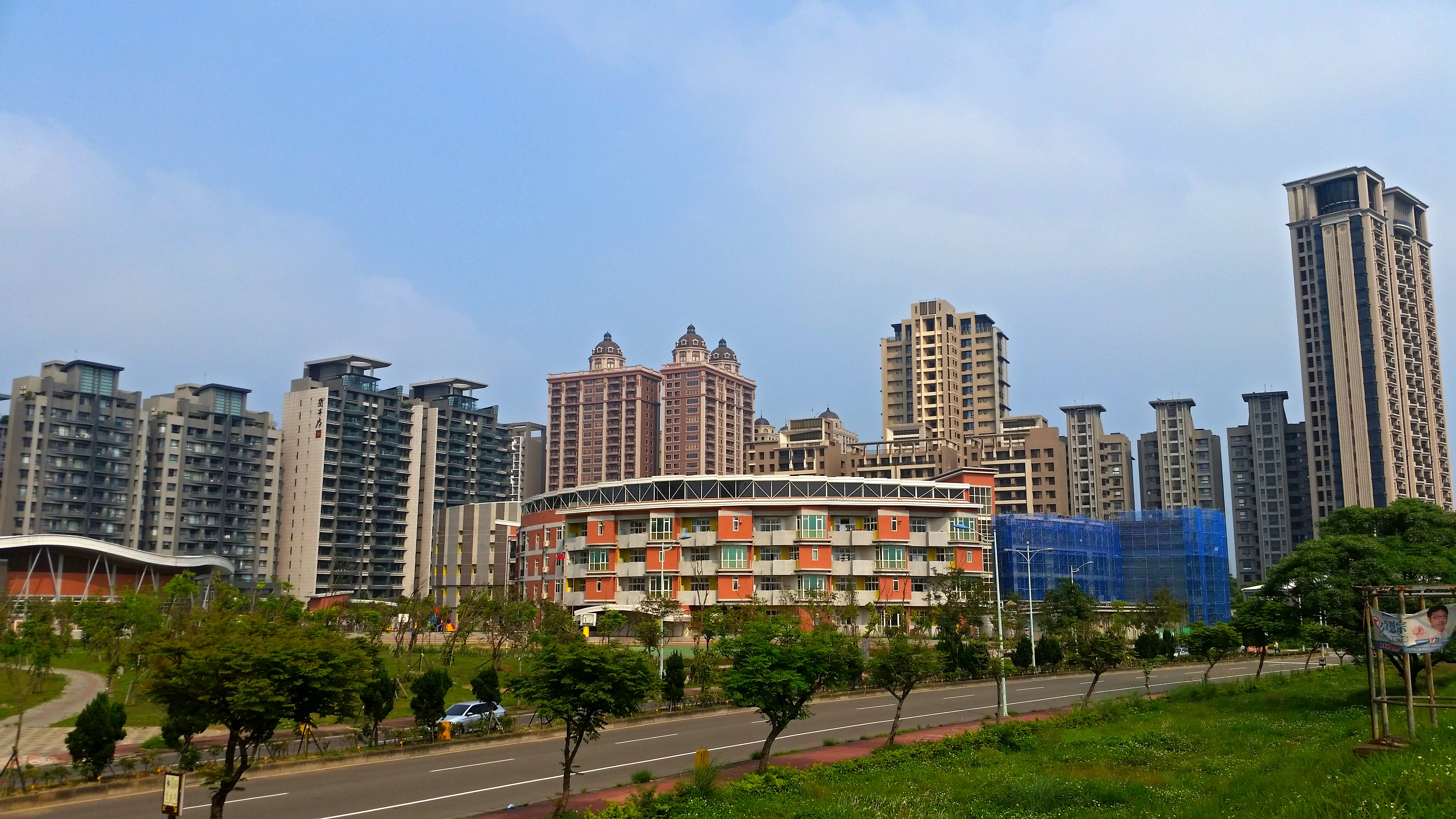 The skyline of Xinglong Road Section 2, Zhubei, Hsinchu County, Taiwan.